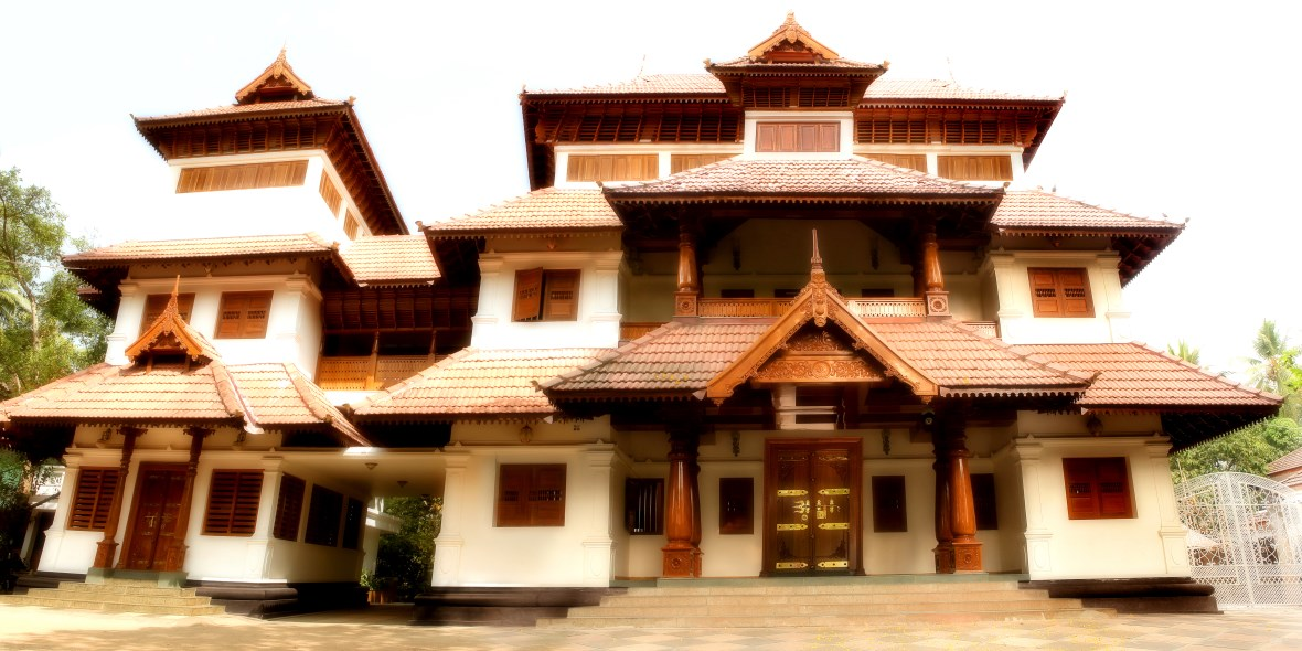 Main enternce avanangattilkalari vishnumaya temple